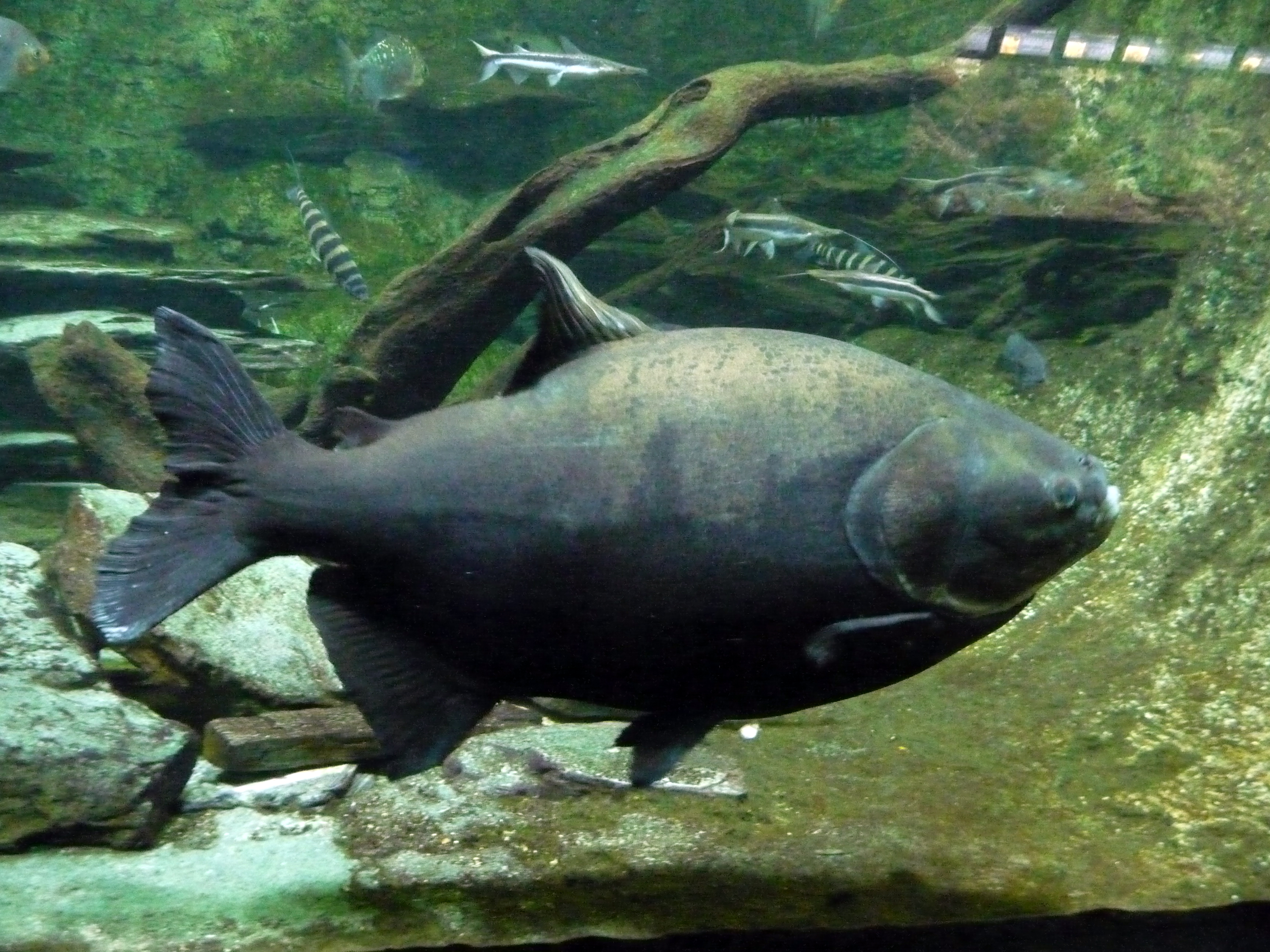 Piaractus brachypomus